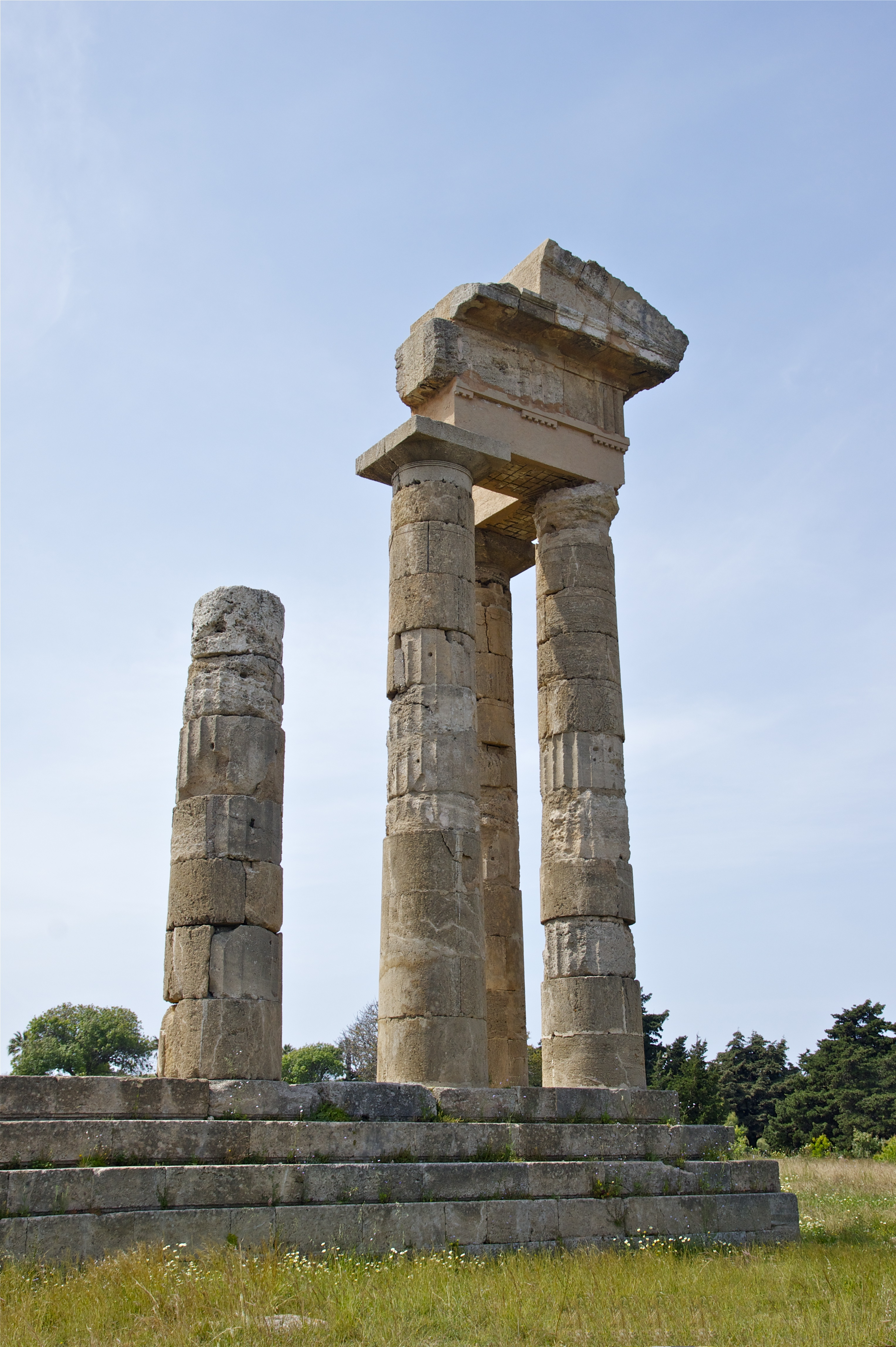 The ruins of the temple of Apollon, Acropolis of Rhodes, Greece.